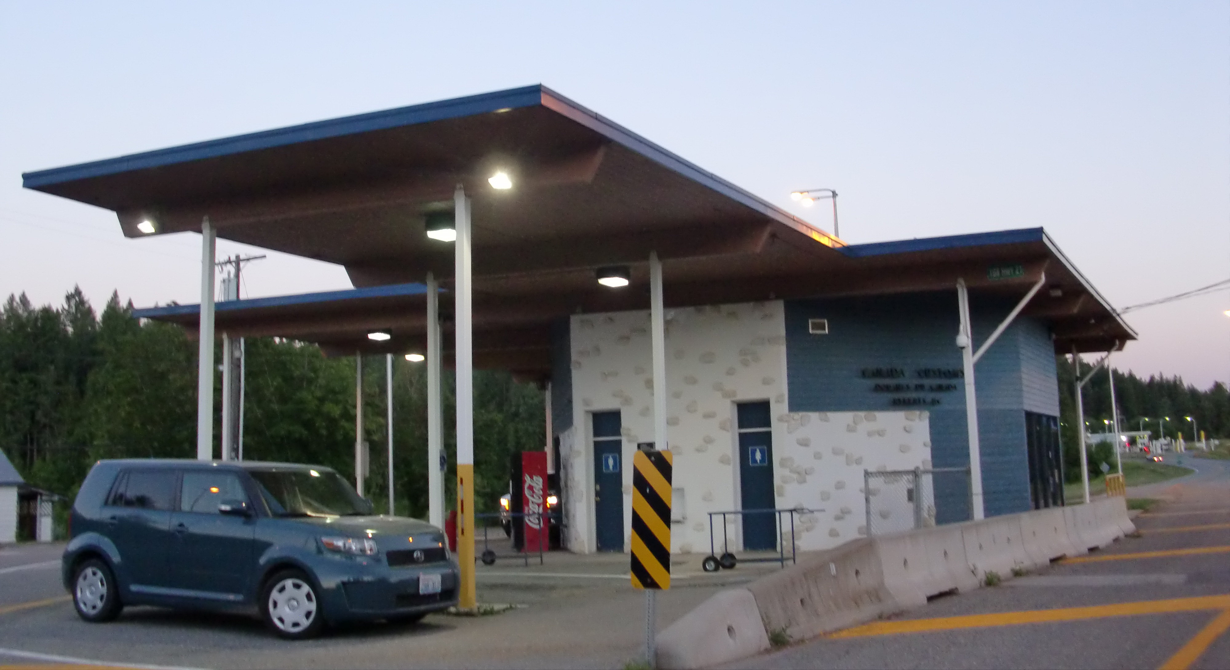 Rykerts, BC port of Entry